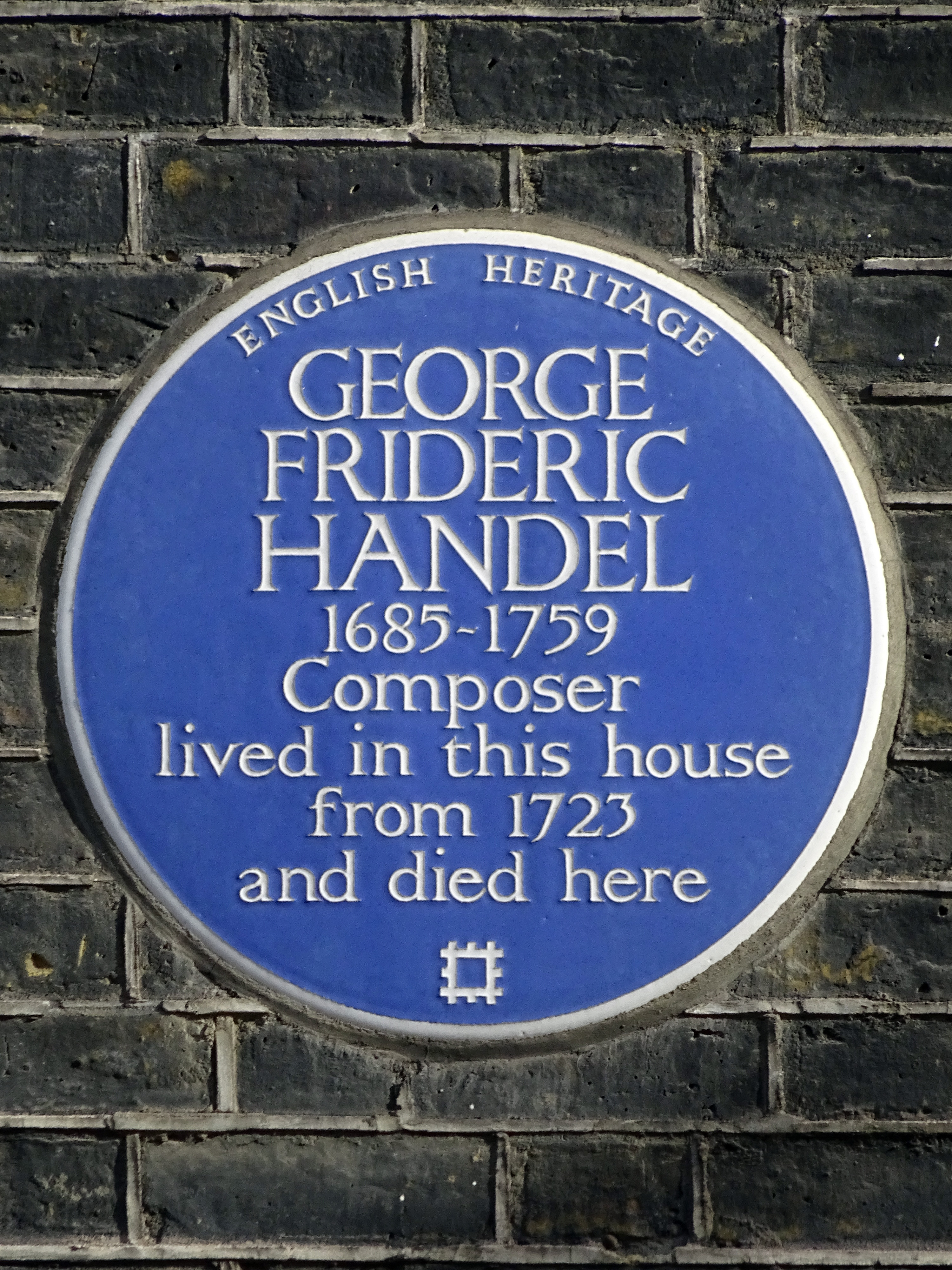 Blue plaque erected in 2001 by English Heritage at 25 Brook Street, Mayfair, London W1K 4HB, City of Westminster. This replaced a London County Council plaque of 1952, which was itself a replacement for a brown Society of Arts plaque of 1870.